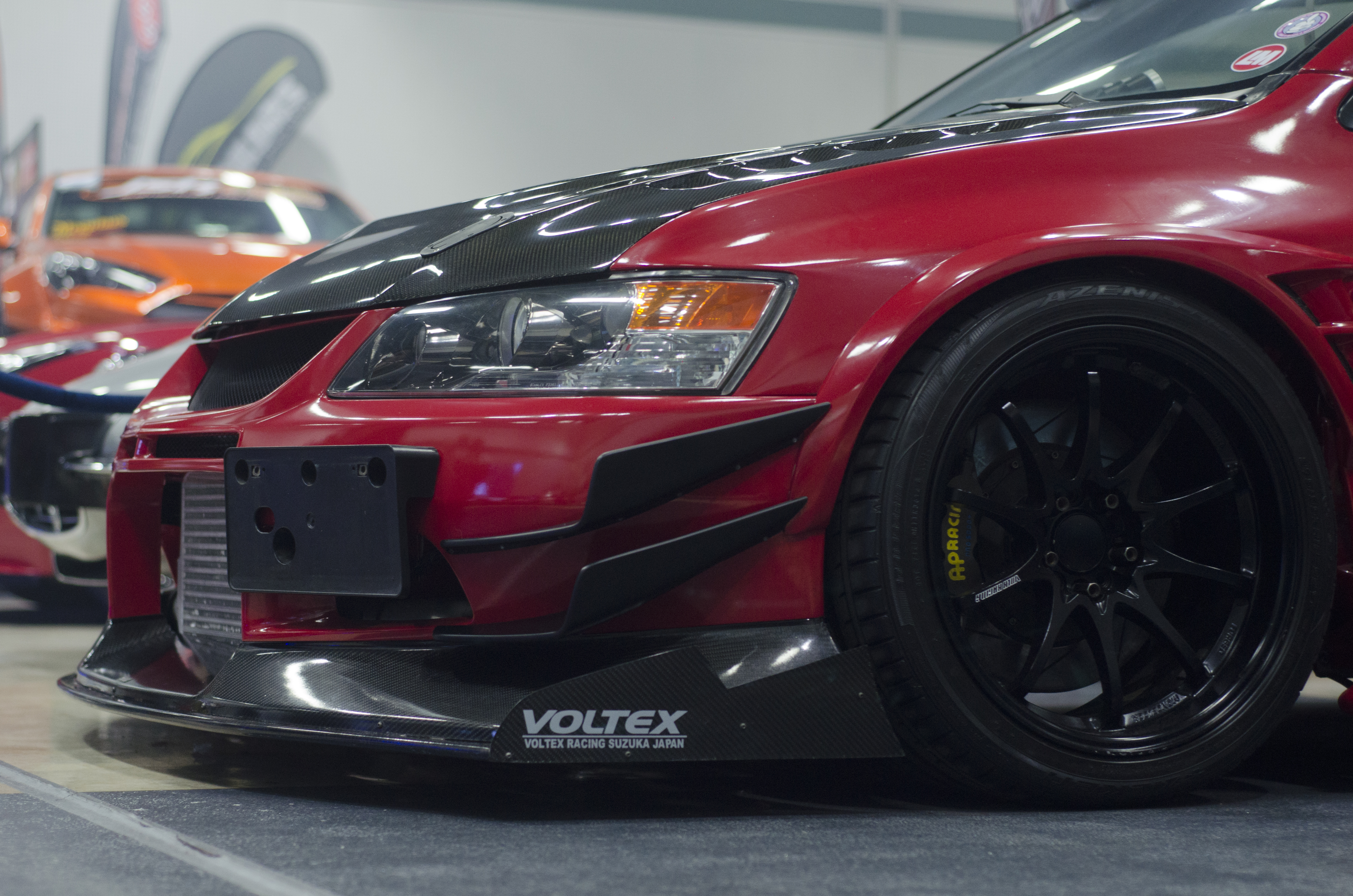 Evo IX side view of the front grille fitted with Voltex kit.